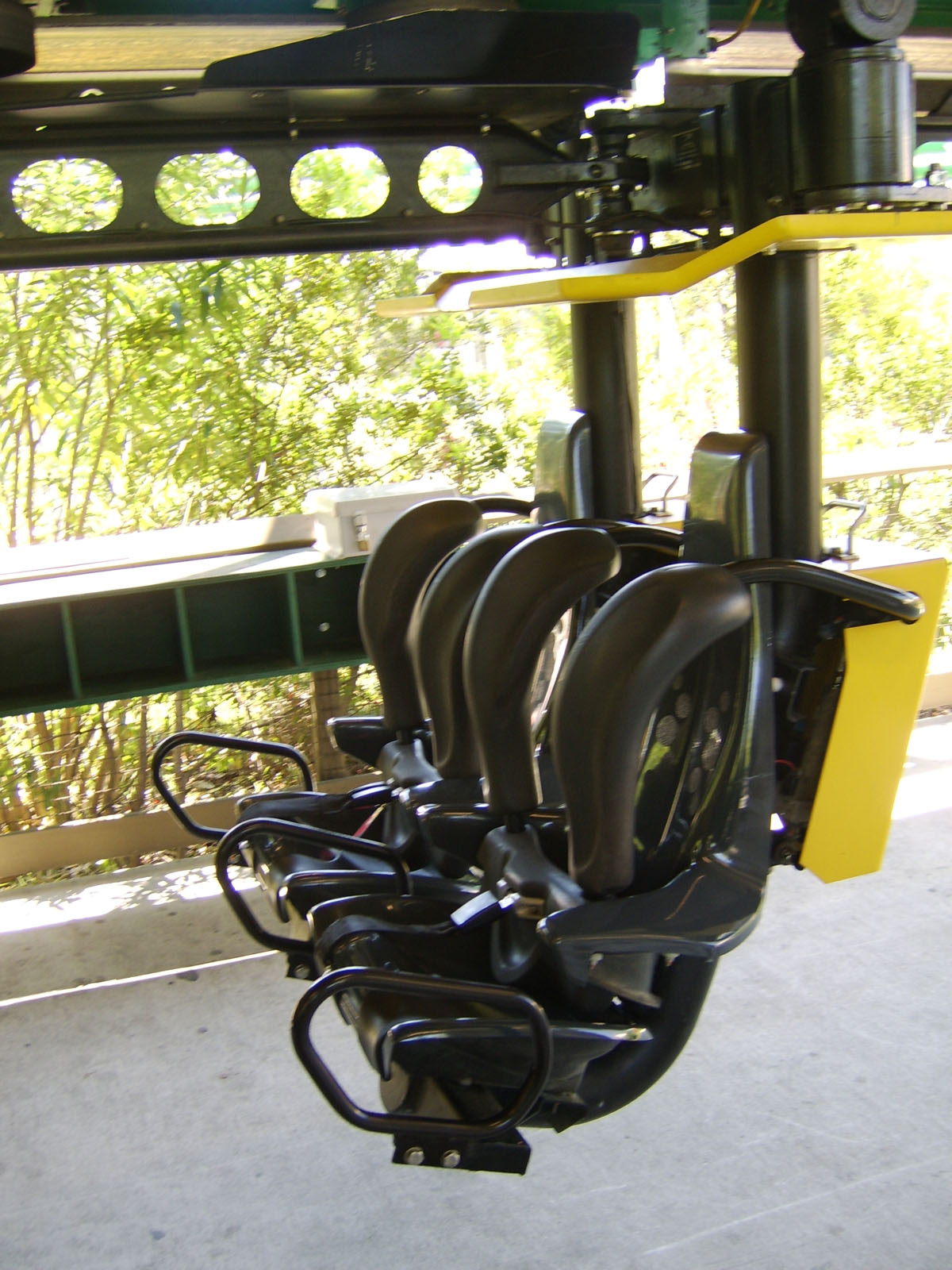 A car from a Vekoma junior inverted roller coaster